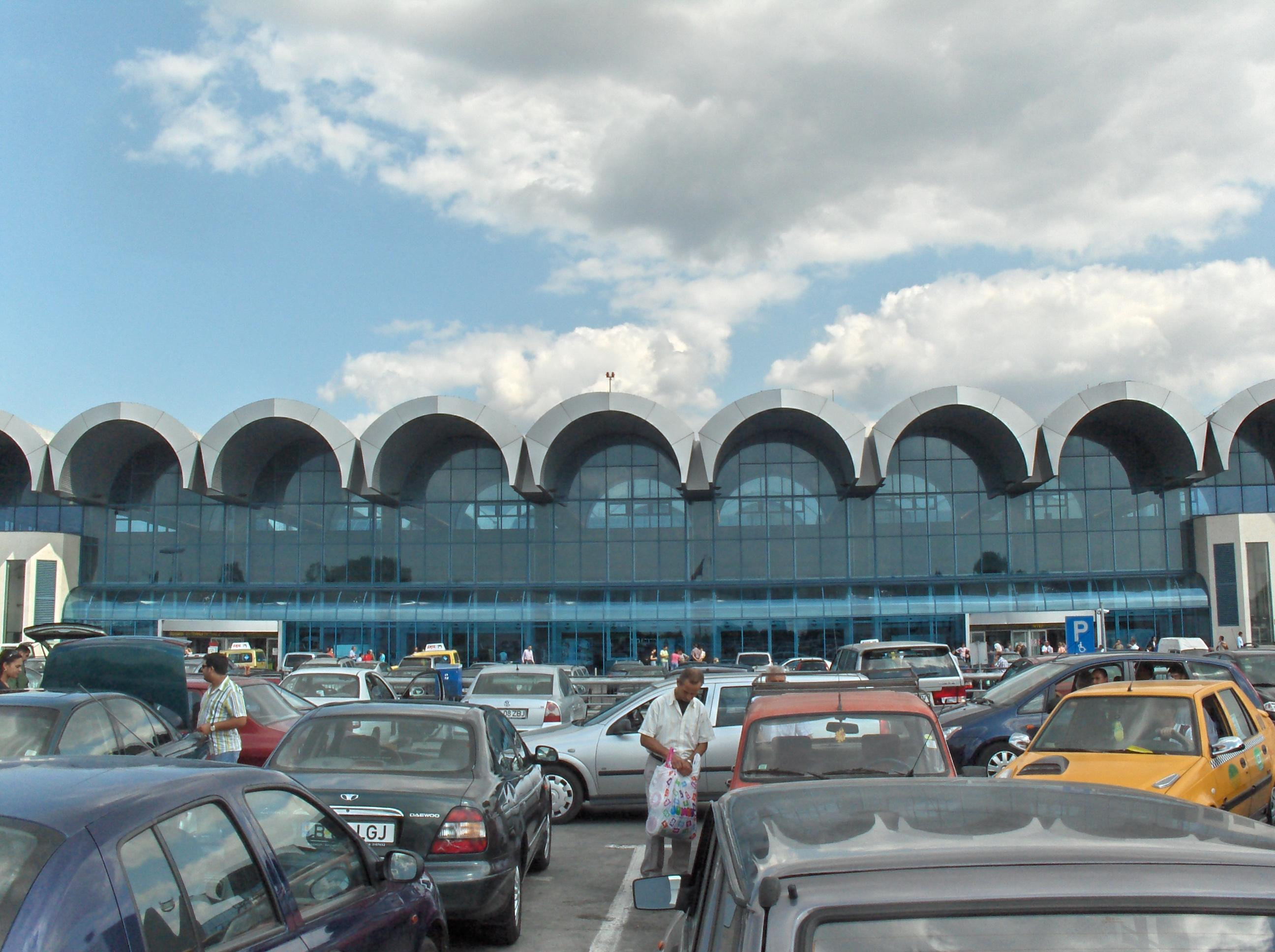 Henri-Coanda Airport arrivals.